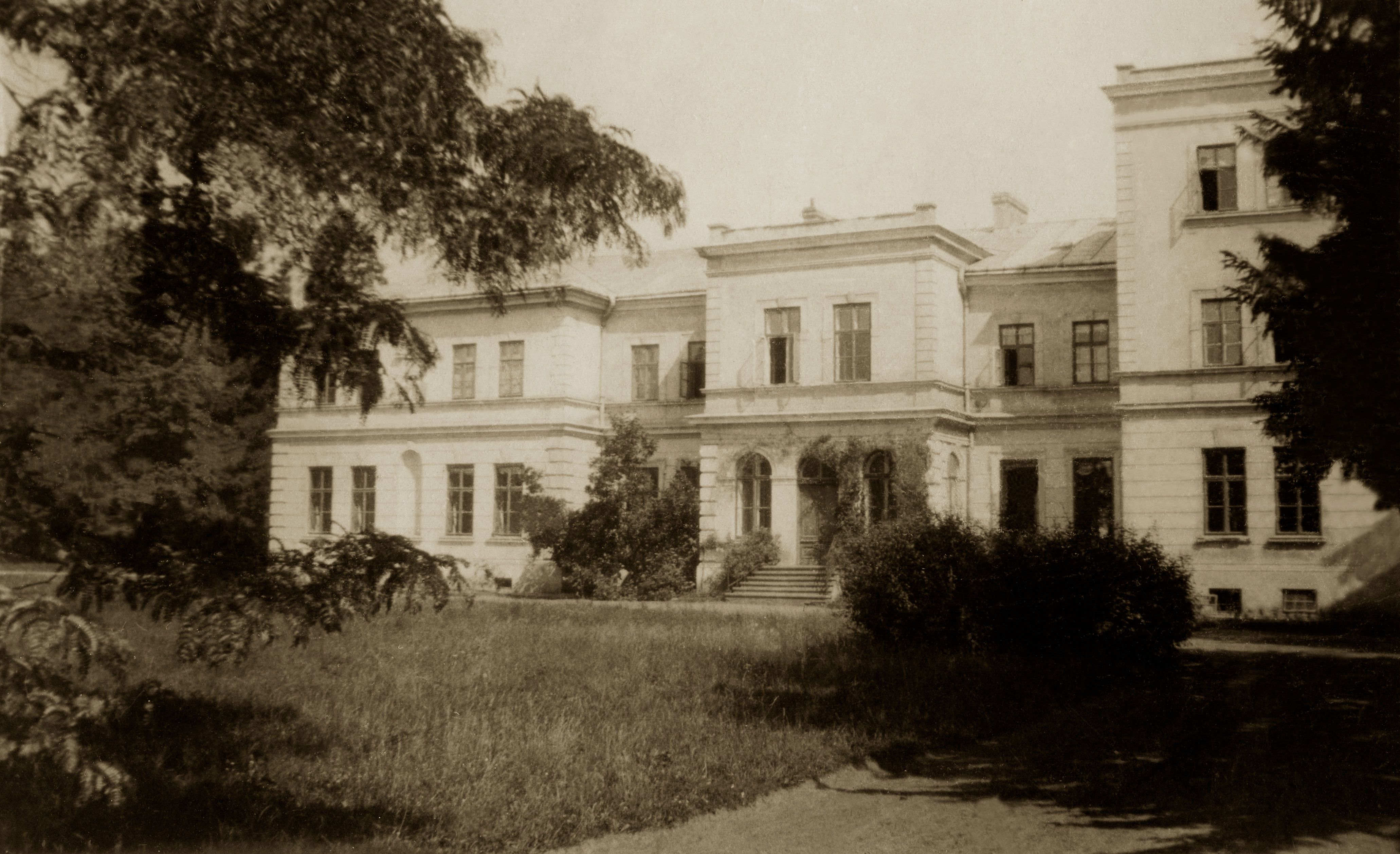 Hliboka (Bukovina), ca. 1925